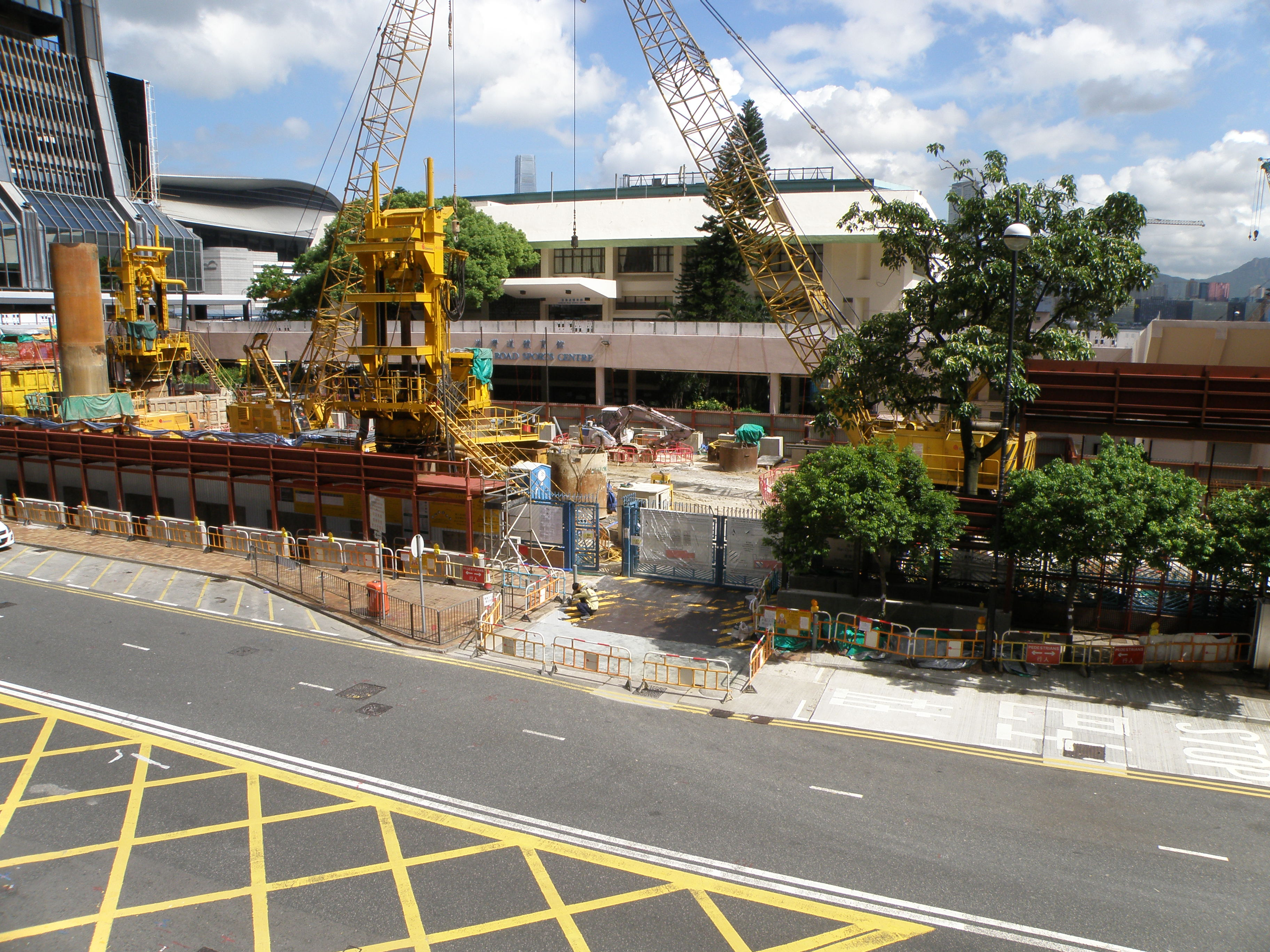 Reprovisioning site of Harbour Road Sports Centre and Wan Chai Swimming Pool